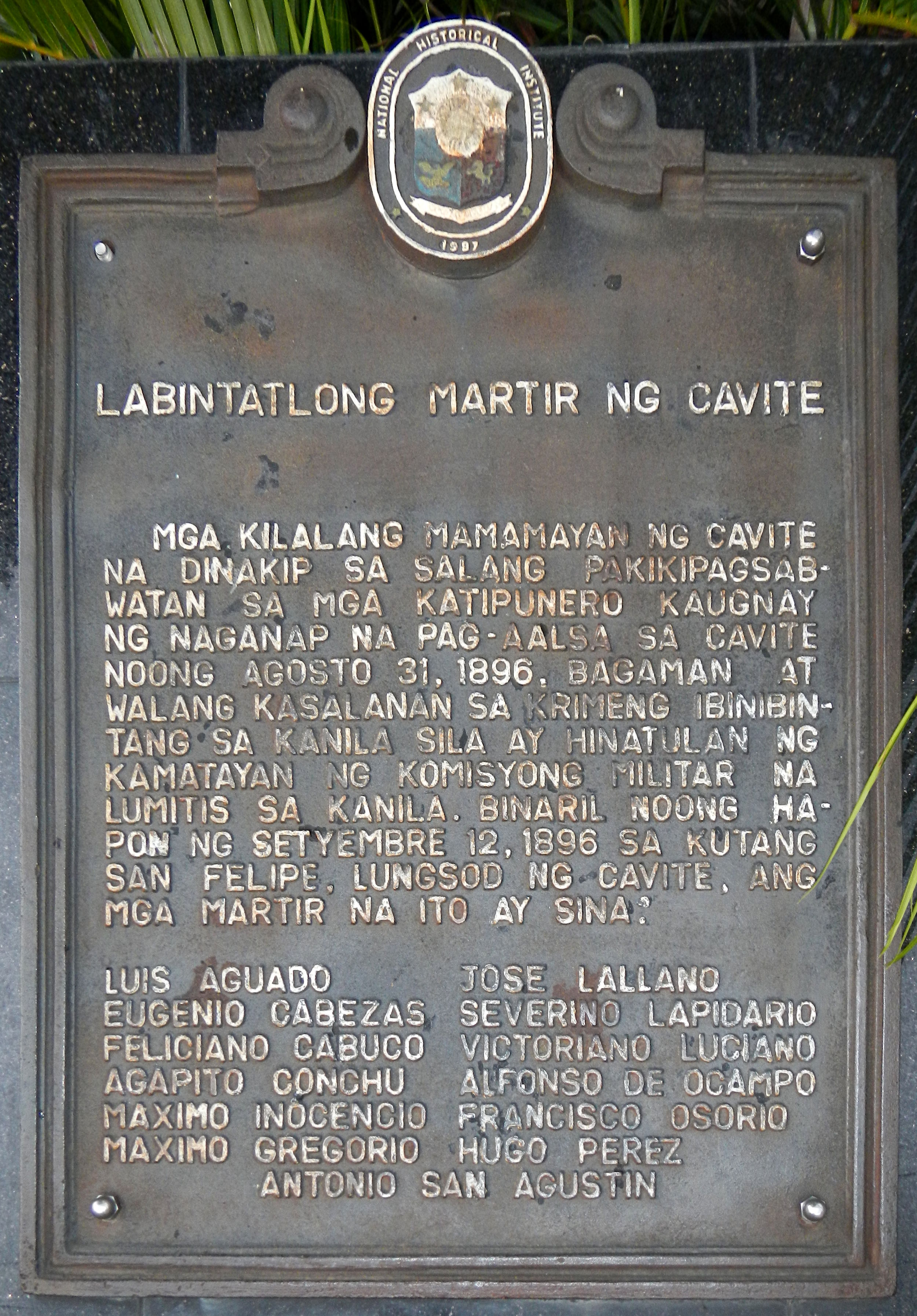 Historical marker installed by the National Historical Institute (now the National Historical Commission of the Philippines) for the Thirteen Martyrs of Cavite.